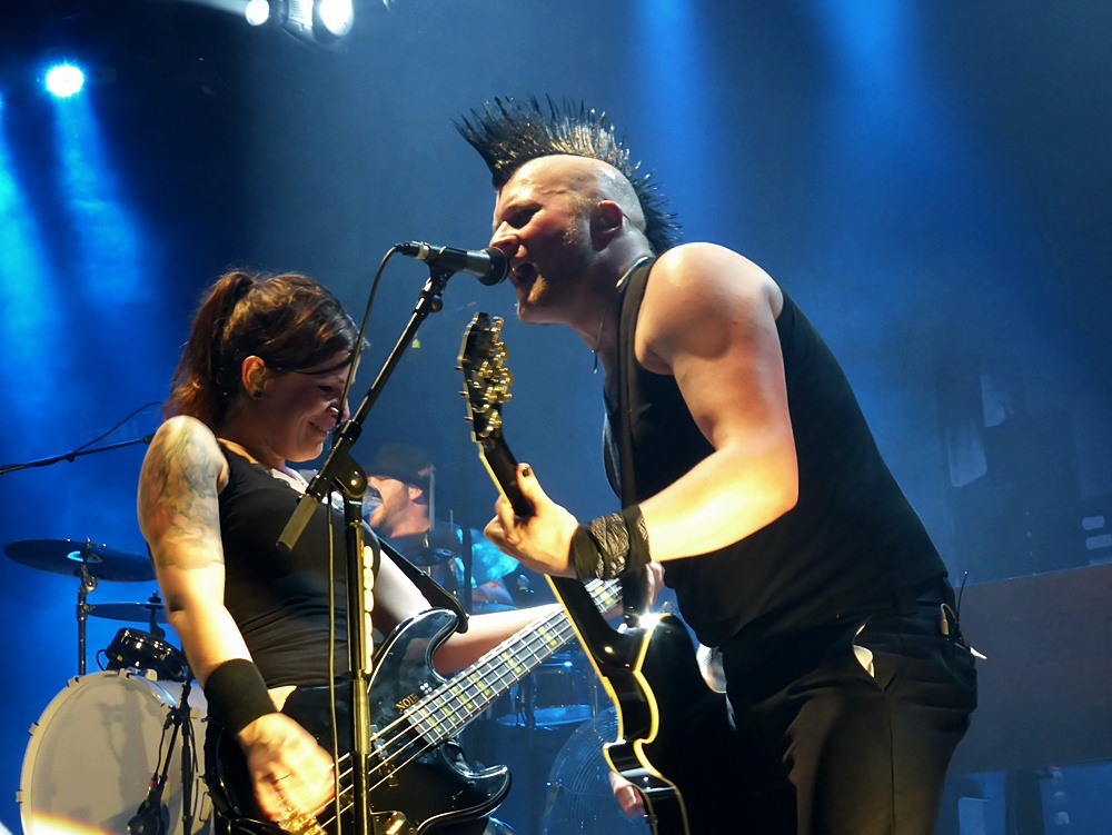 Ines Maybaum und Ronald Hübner during the Noir-Tour 2014